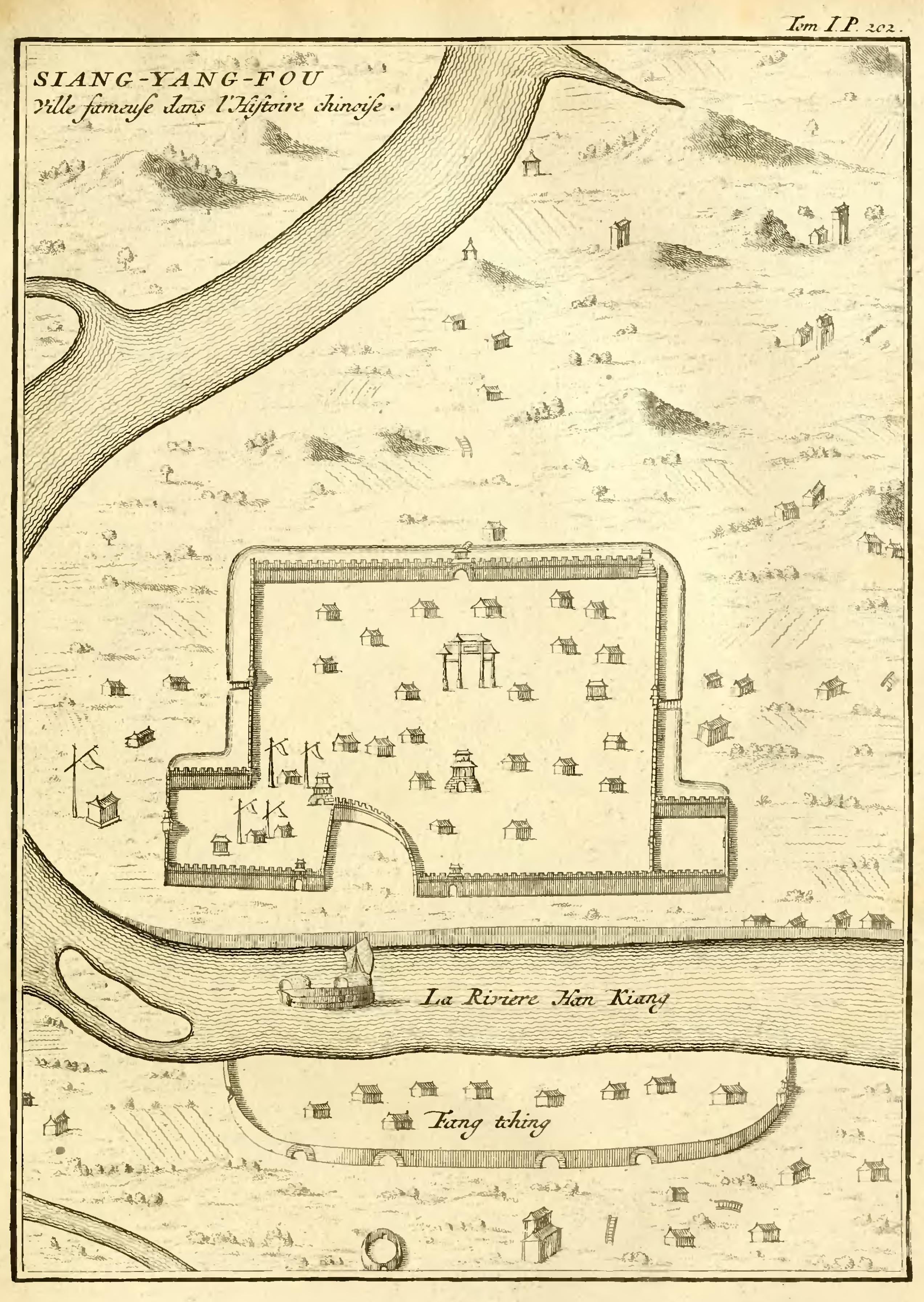 "Siang-yang-fou: A City Famous in Chinese History": an engraving from La Haye's edition of the Description of China, Vol. I, p. 202. A map of the location of Xiangyang and Fangcheng along the Han River. Note that the positions of Xiangyang and Fangcheng have been reversed.